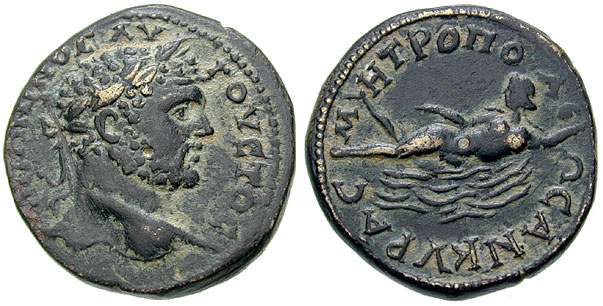 coin from Ankyra, Galatia, from period of Roman emperor Caracalla. Obverse: ANTWNINOC AV-GOVCTOC, laureate head right / reverse: MHTPOPO-LE-WC ANKVPAC, Aphrodite, nude, swimming right, head turned left.